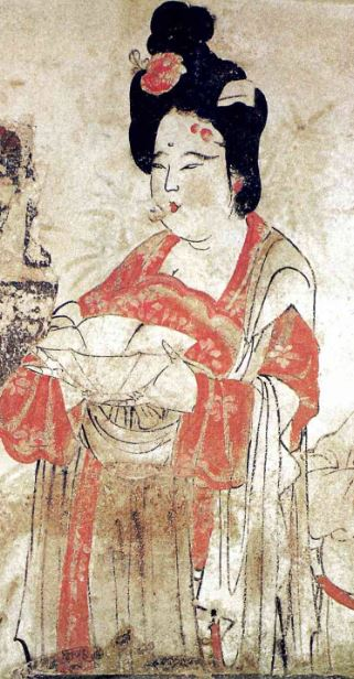 Detail of a mural painting from the tomb of Wang Ch'u-chih, discovered in Ch'ü-yang County, Hopeh Province, Five Dynasties period.